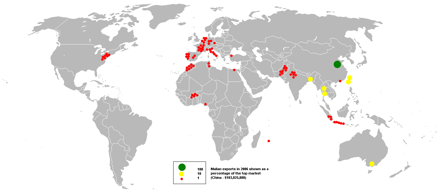 This bubble map shows the global distribution of Malian exports in 2006 as a percentage of the top market (China - $103,825,000). This map is consistent with incomplete set of data too as long as the top producer is known. It resolves the accessibility issues faced by colour-coded maps that may not be properly rendered in old computer screens. Data was extracted on 19th September 2007 from Based on :Image:BlankMap-World.png